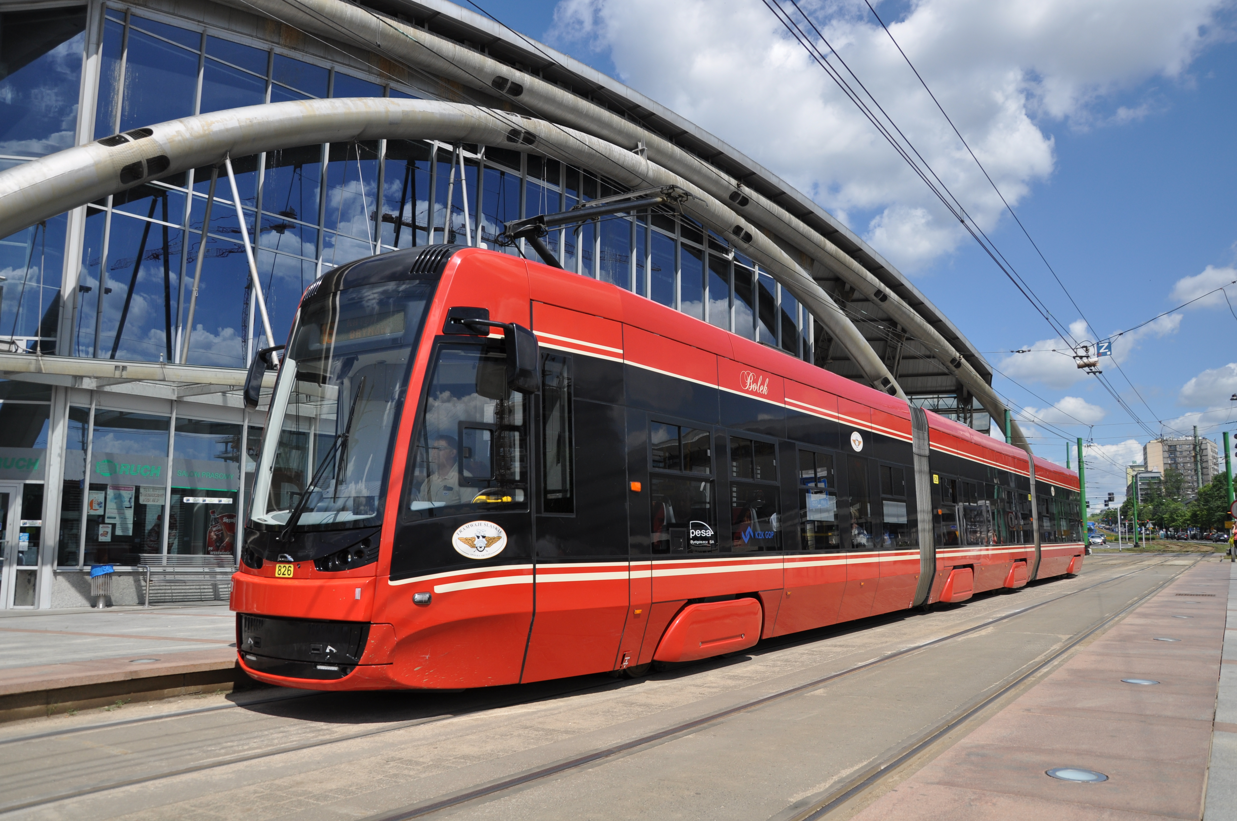 Trams of Tramwaje Slaskie